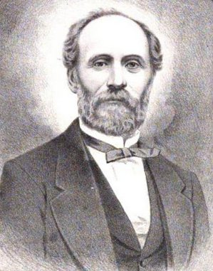 Portrait of Luther Hall Foster in 1882